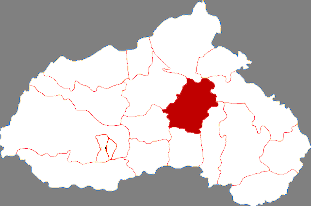 Location of Julu county in Xingtai City, China